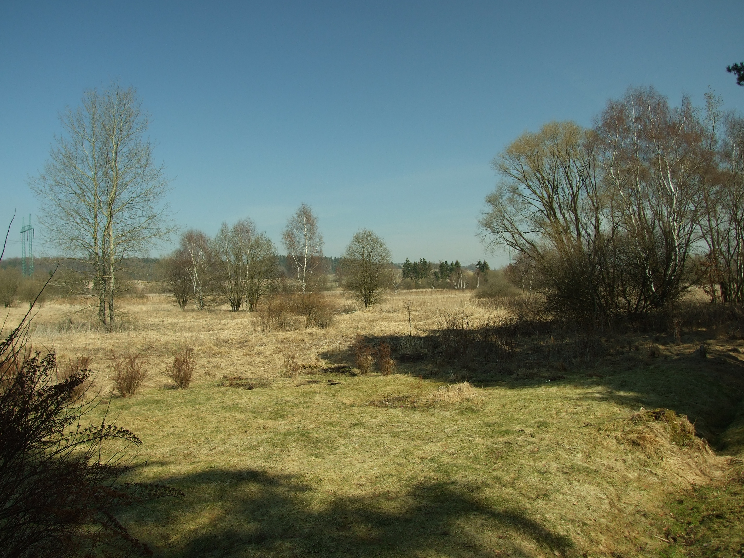 Louštínský potok creek near Třtice and Řevničov towns, Rakovník District. Central Bohemian Region, CZ